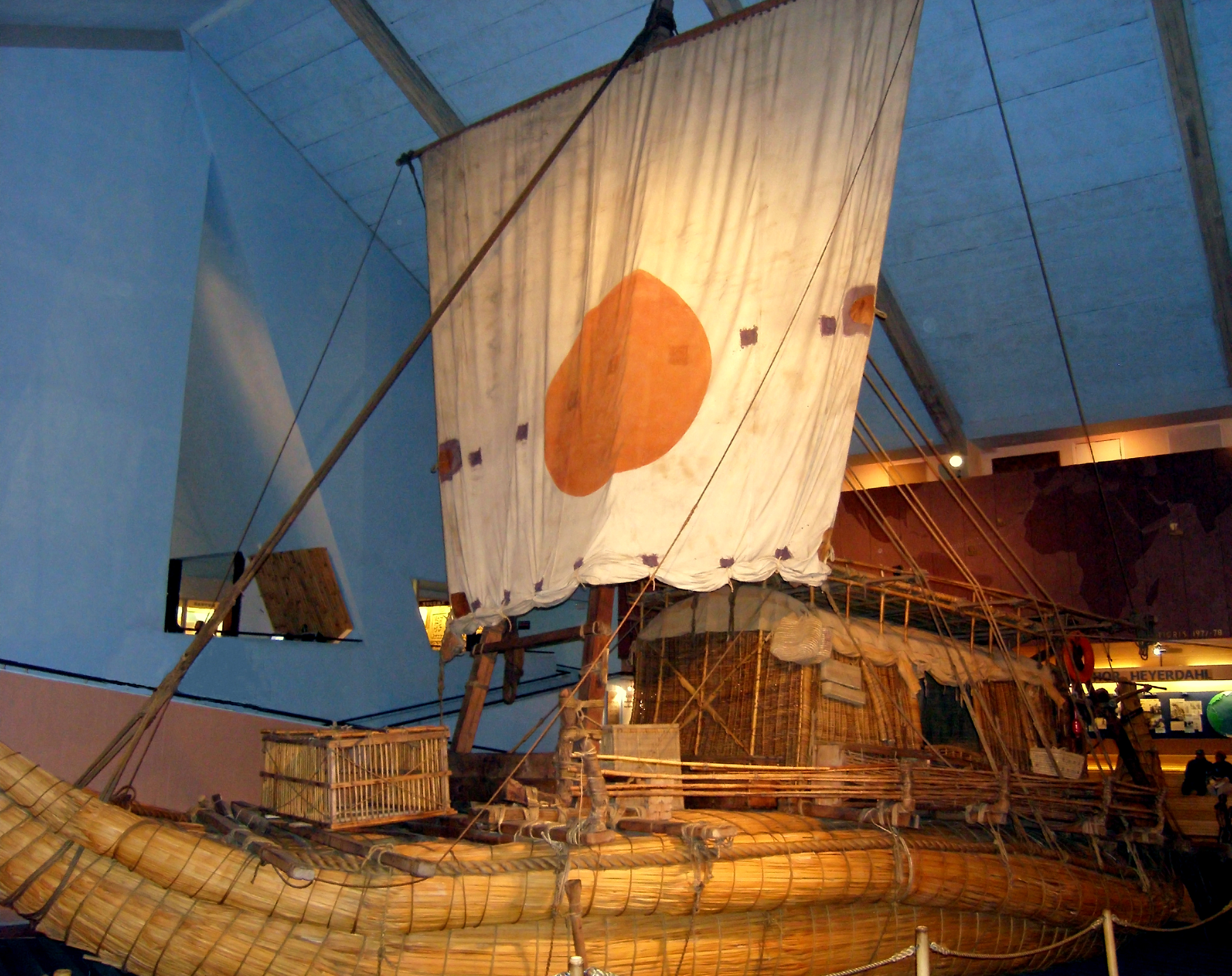 Thor Heyerdahl's raft Ra II (Kon-Tiki Museum, Oslo, Norway). The reed is not original, the rest of the vessel is.